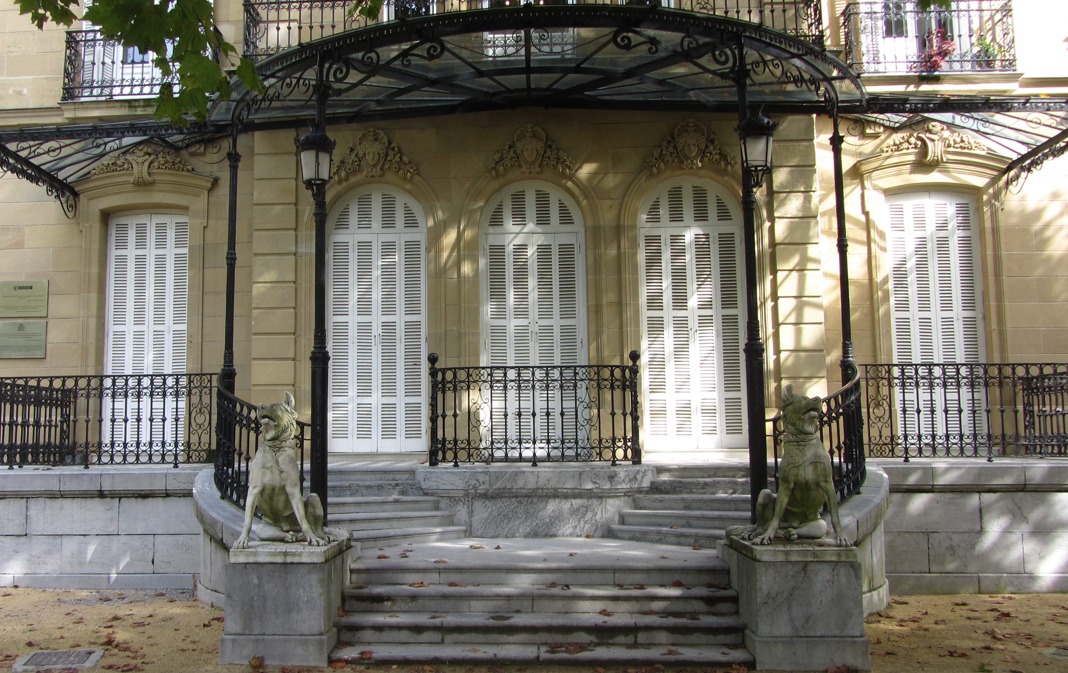 Rear access stairway to Ayete Palace in San Sebastián (Spain).